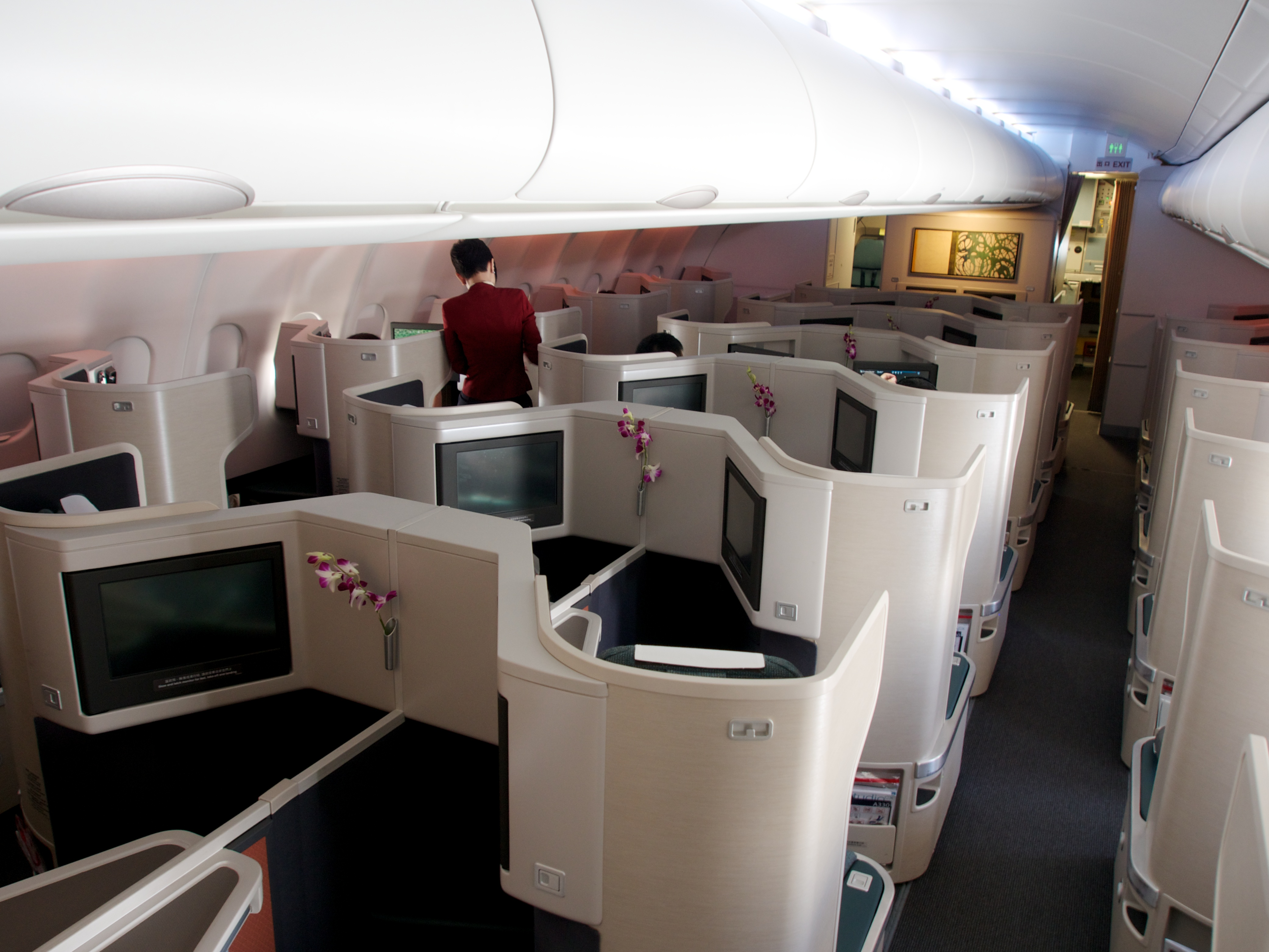 Cathay Pacific | A330-300 | Business Class